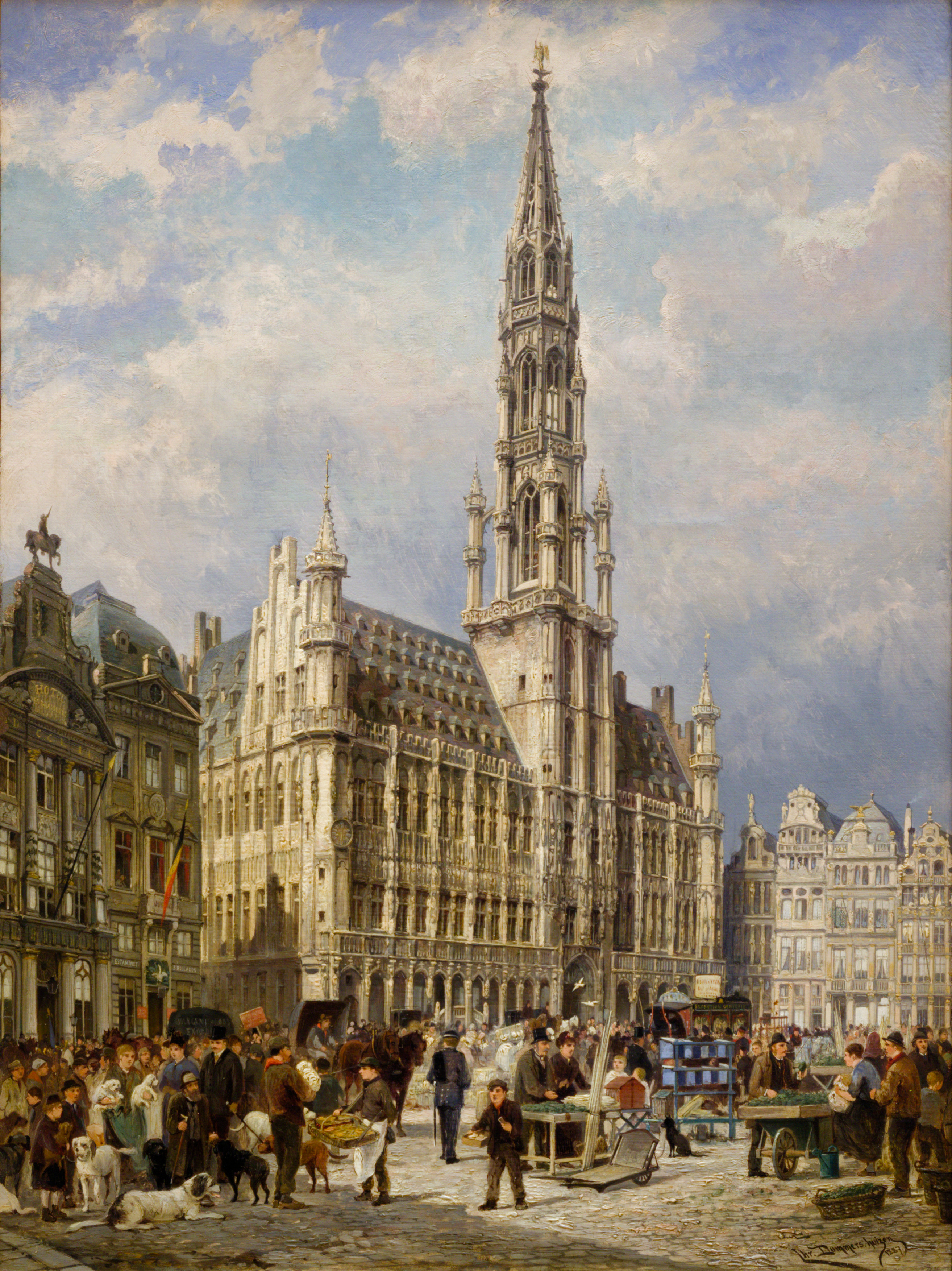 Brussels' Grand Place in 1887 by Christiaan Dommershuijzen (1842-1928) in the Brussels City Museum. This image is part of the Natural Image Noise Dataset